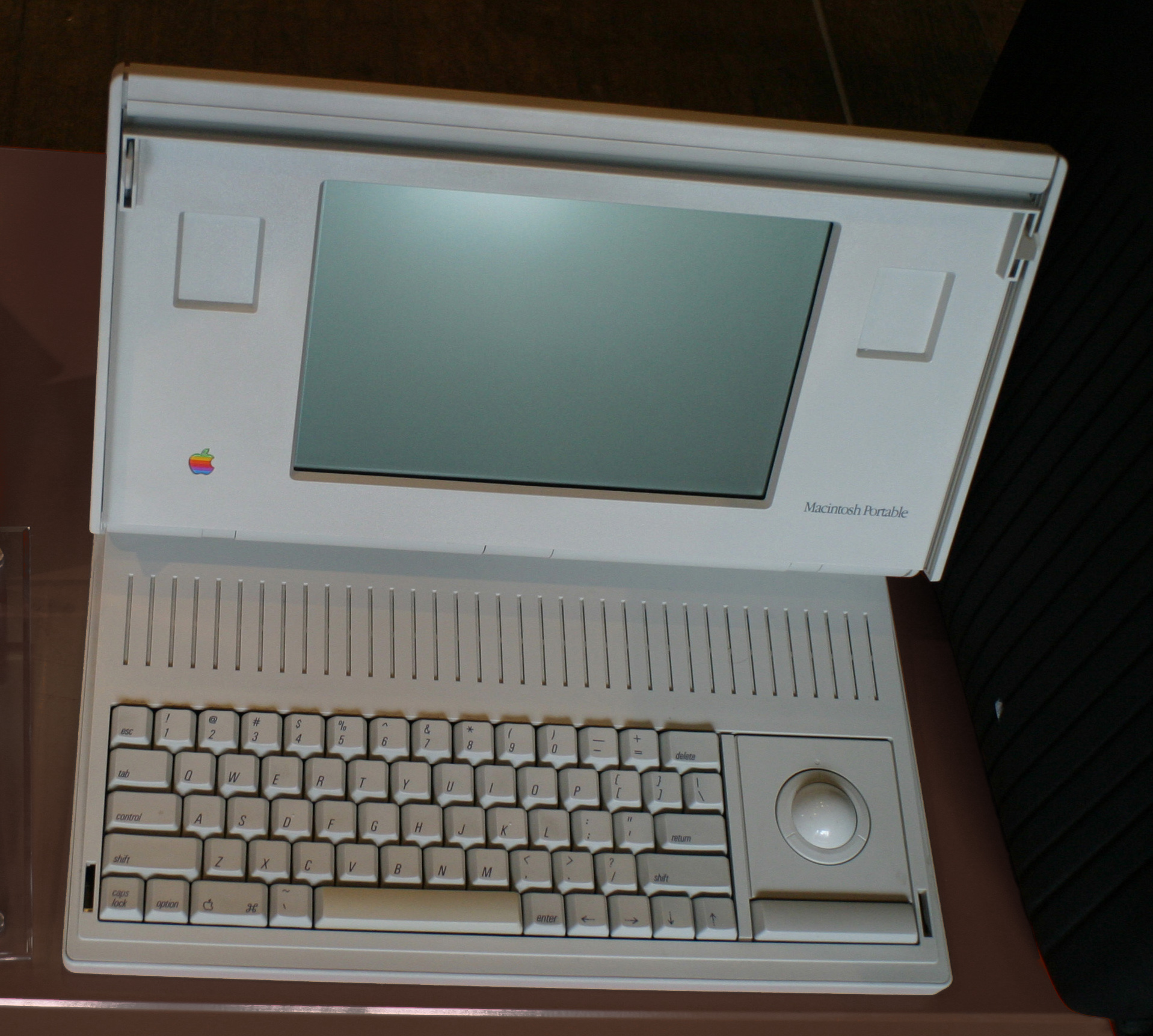 Mac Portable. Computer exhibition Grande Arche Paris 2008. (Computer donated by George BERG).